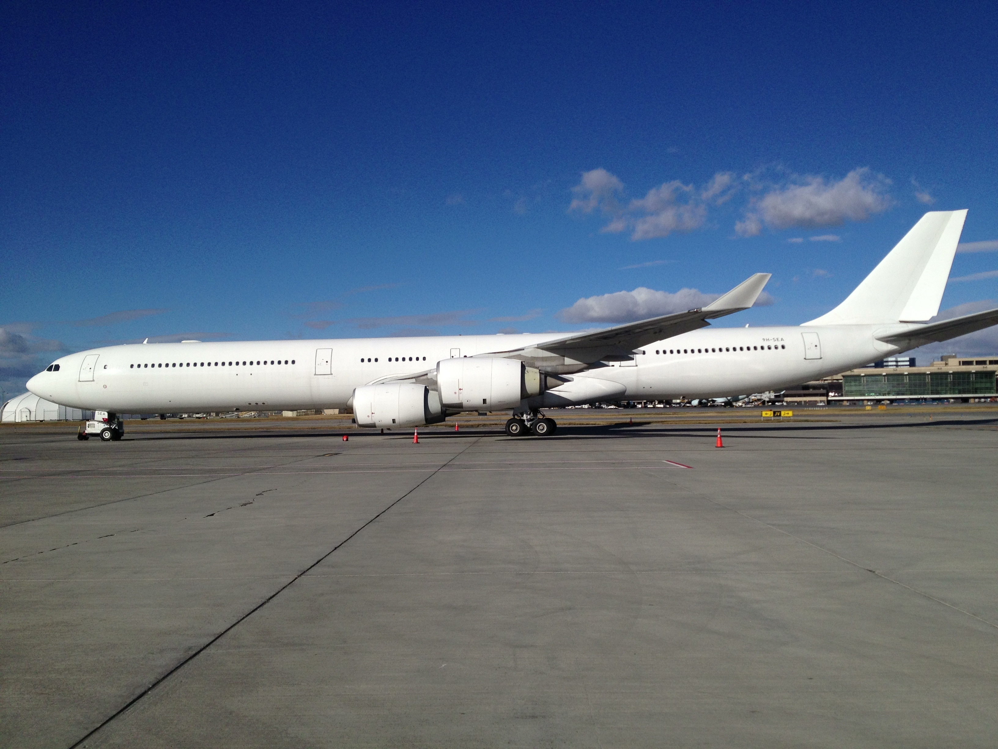 In YYC to pick up a load of soldiers and their gear. Also in YYC is an RAF Voyager.